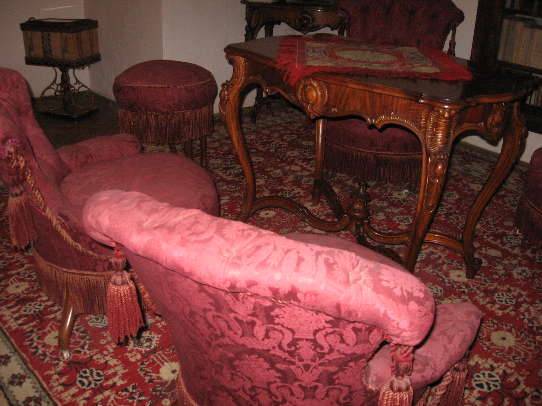 Interior furniture.